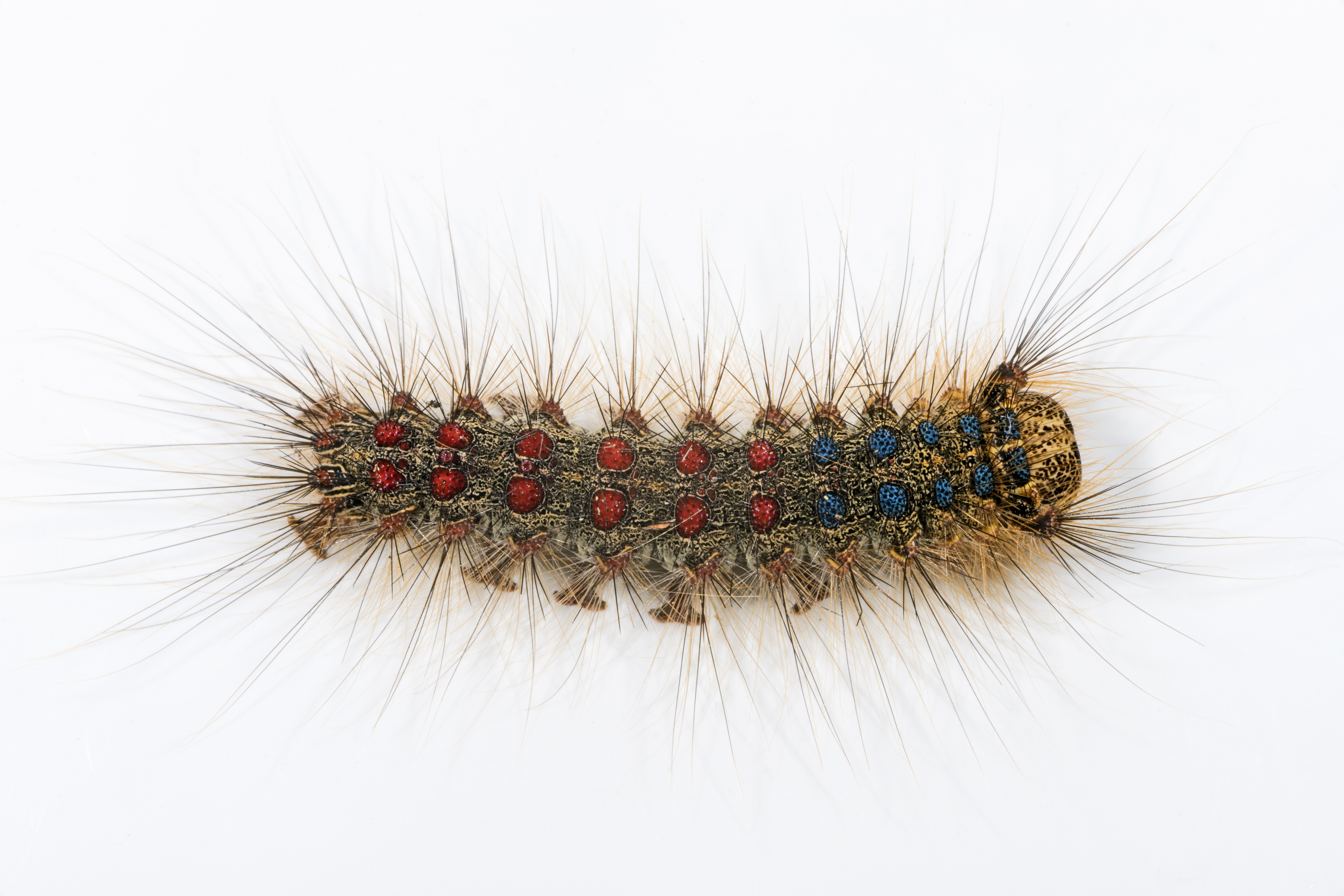 Caterpillar of Gypsy Moth, on a sheet of paper at the bottom of an oak tree